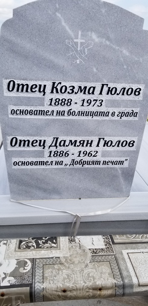 Brothers Gulov monument